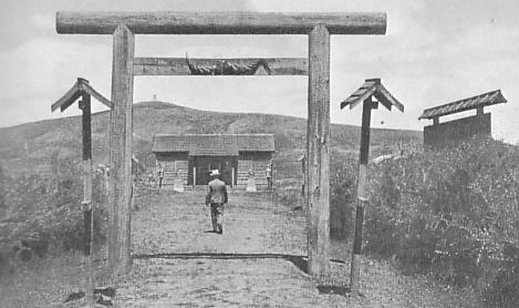 Dunhua Shrine